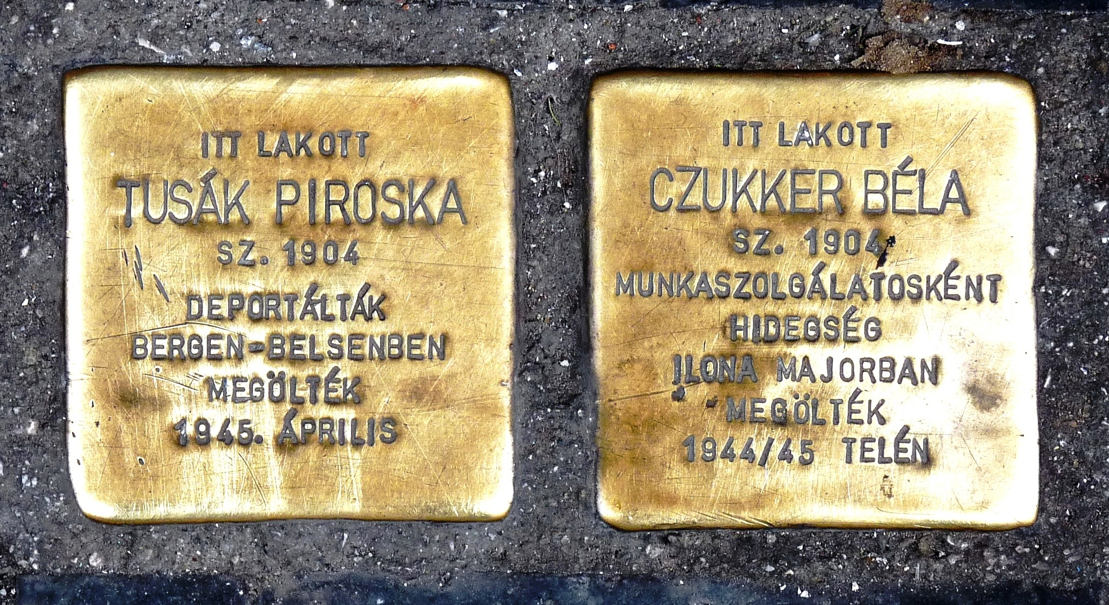 Stolperstein in memory of Mr. Béla Czukker (1904-1945) and his wife, Mrs Piroska Tusák (1904-1945), at the entrance of their former domicile. (Budapest, District VII, Rejtő Jenő Street Nr 2).